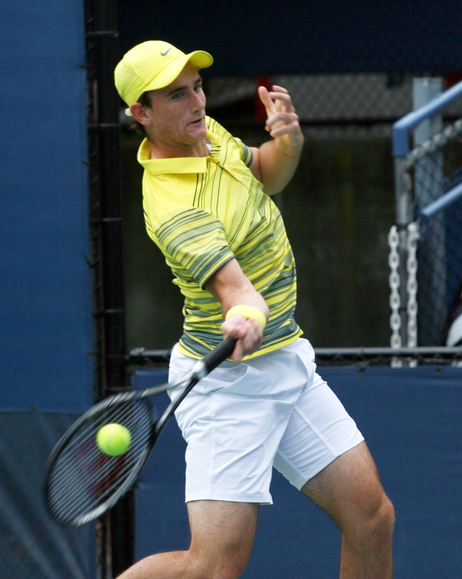 U.S. Open Juniors Monday, Sept. 2, 2013